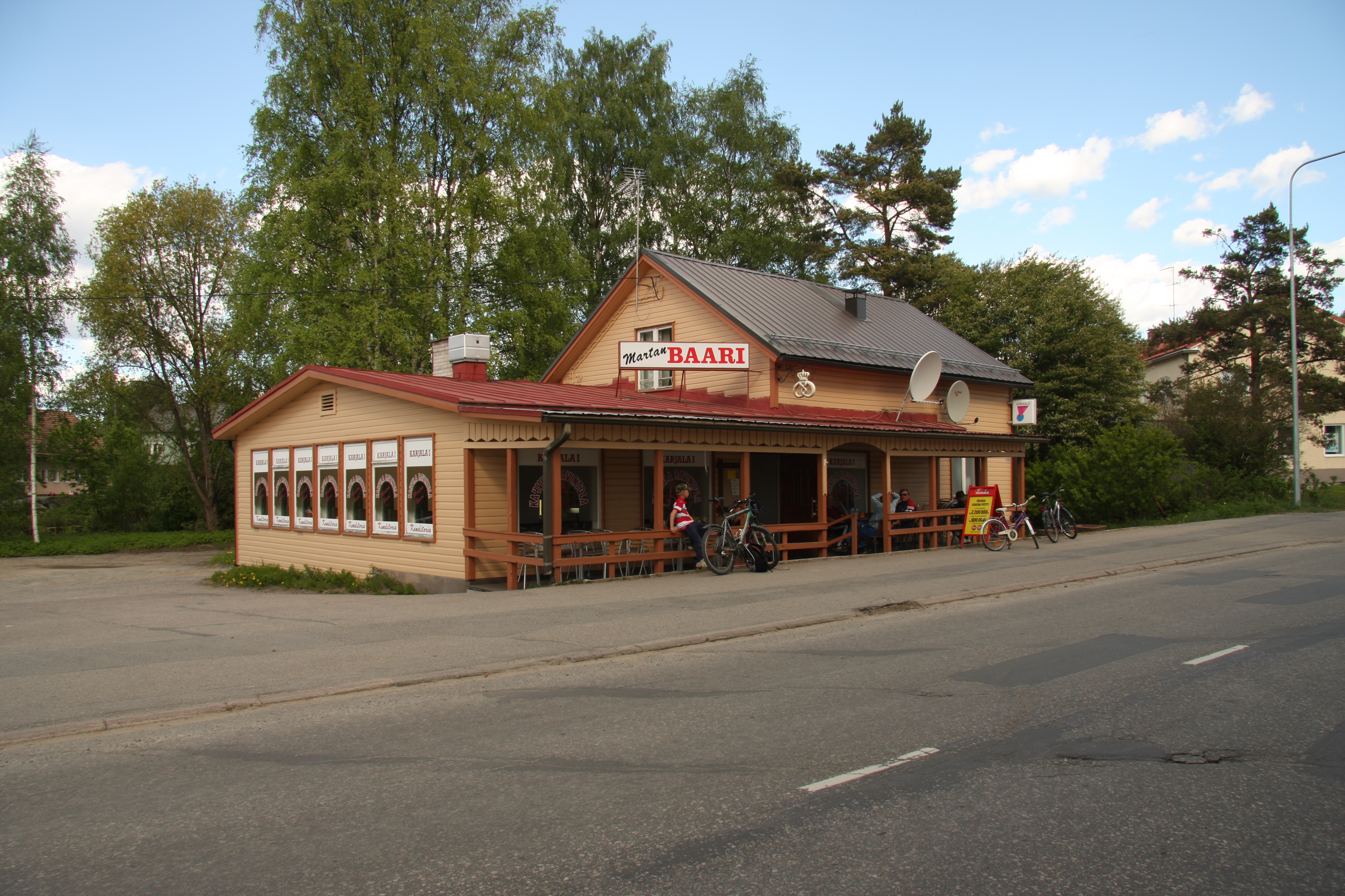 Martan Baari cafe/bar in Ristiina, Finland.